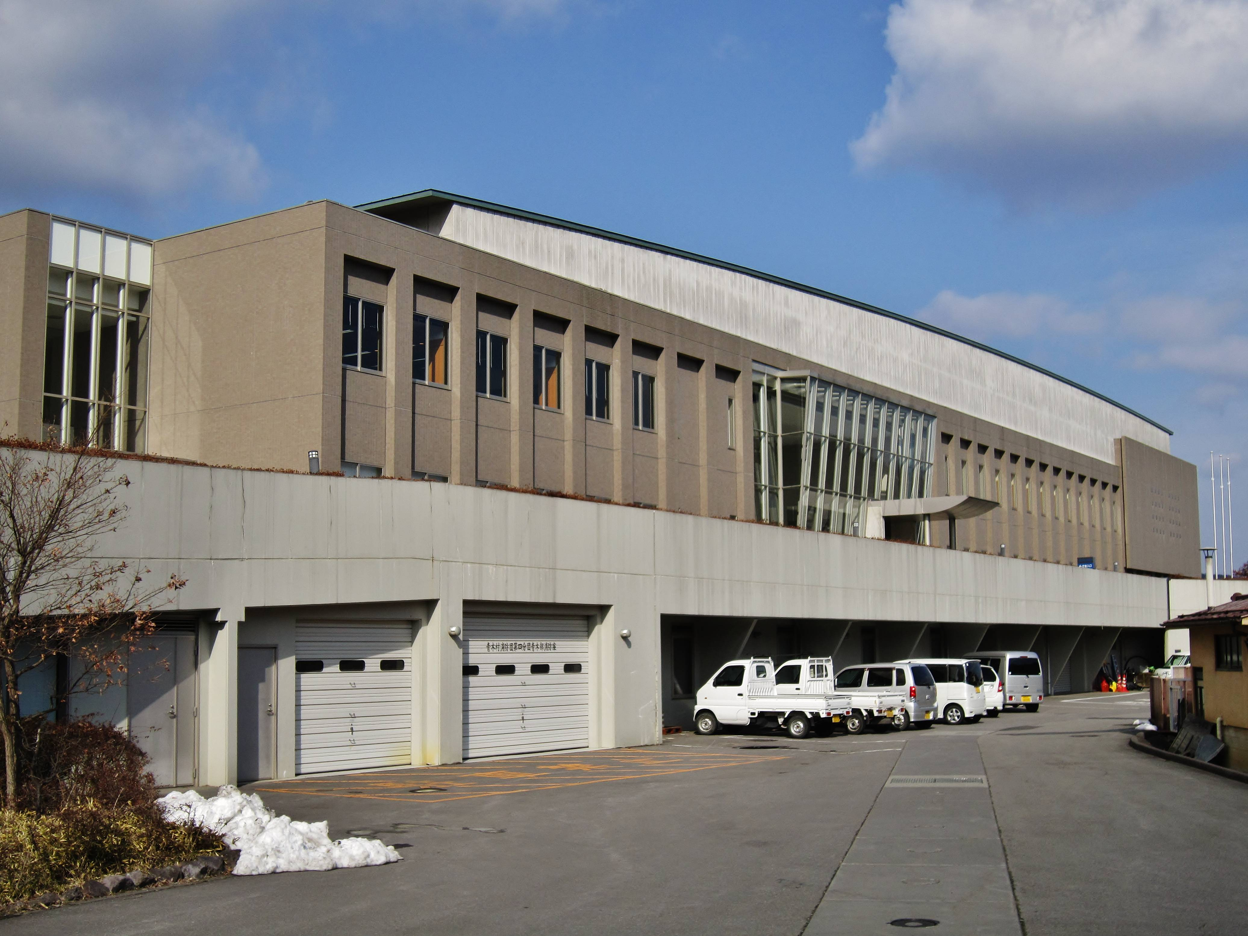 Aoki village office.